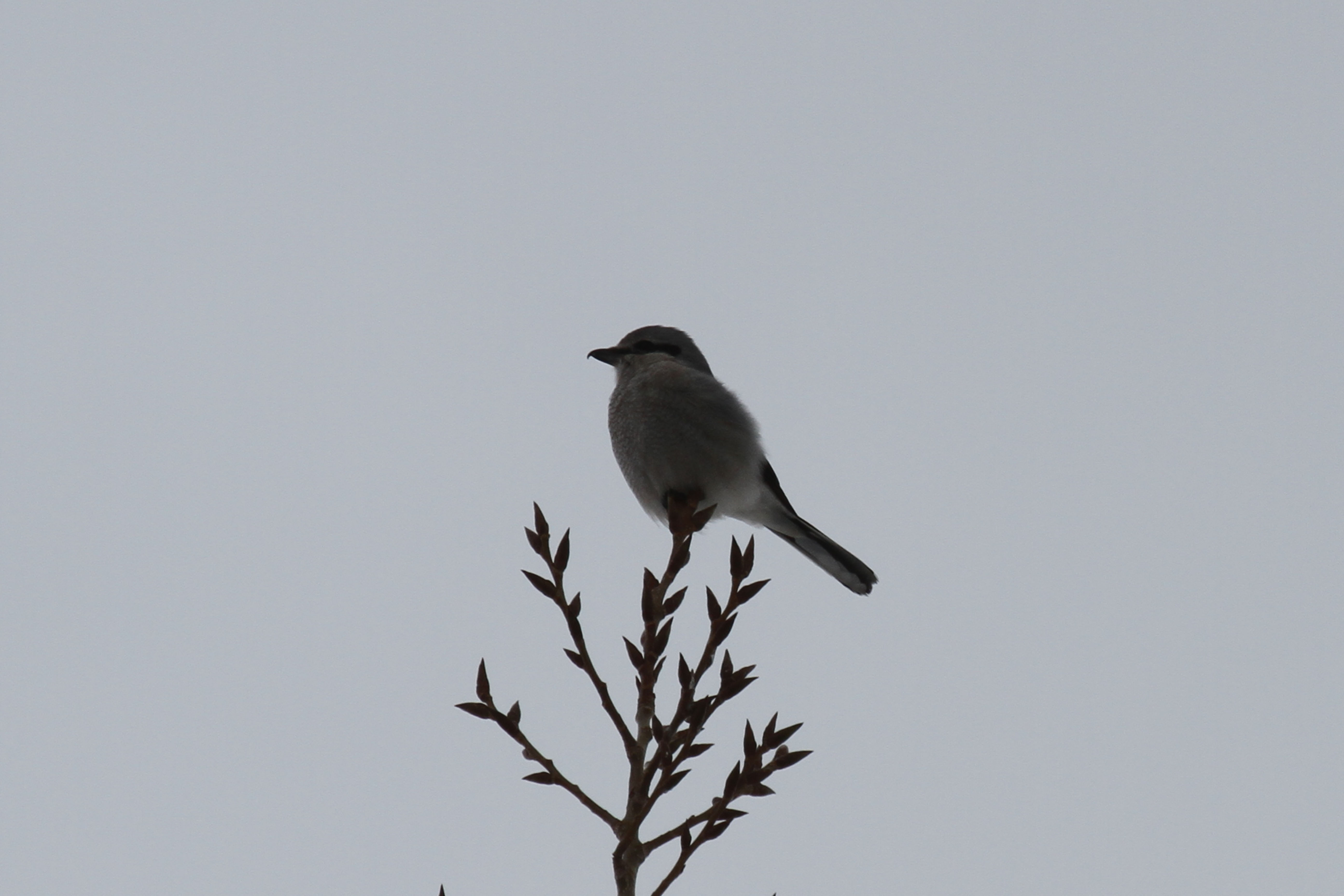 Northern Shrike